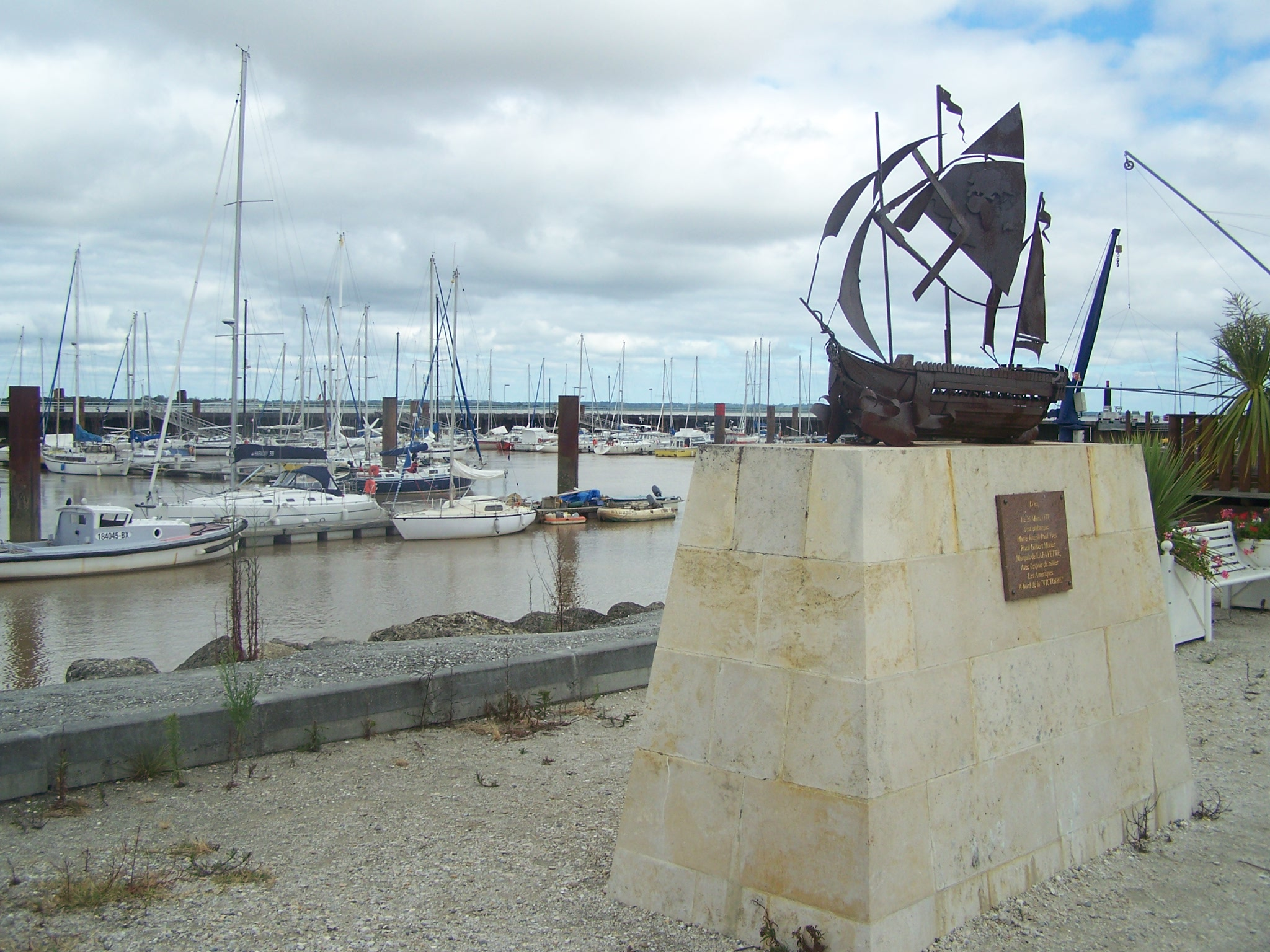 Monument commemorating the departure of the Marquis de la Fayette to America from this port of Pauillac in Gironde, France, in 1777.